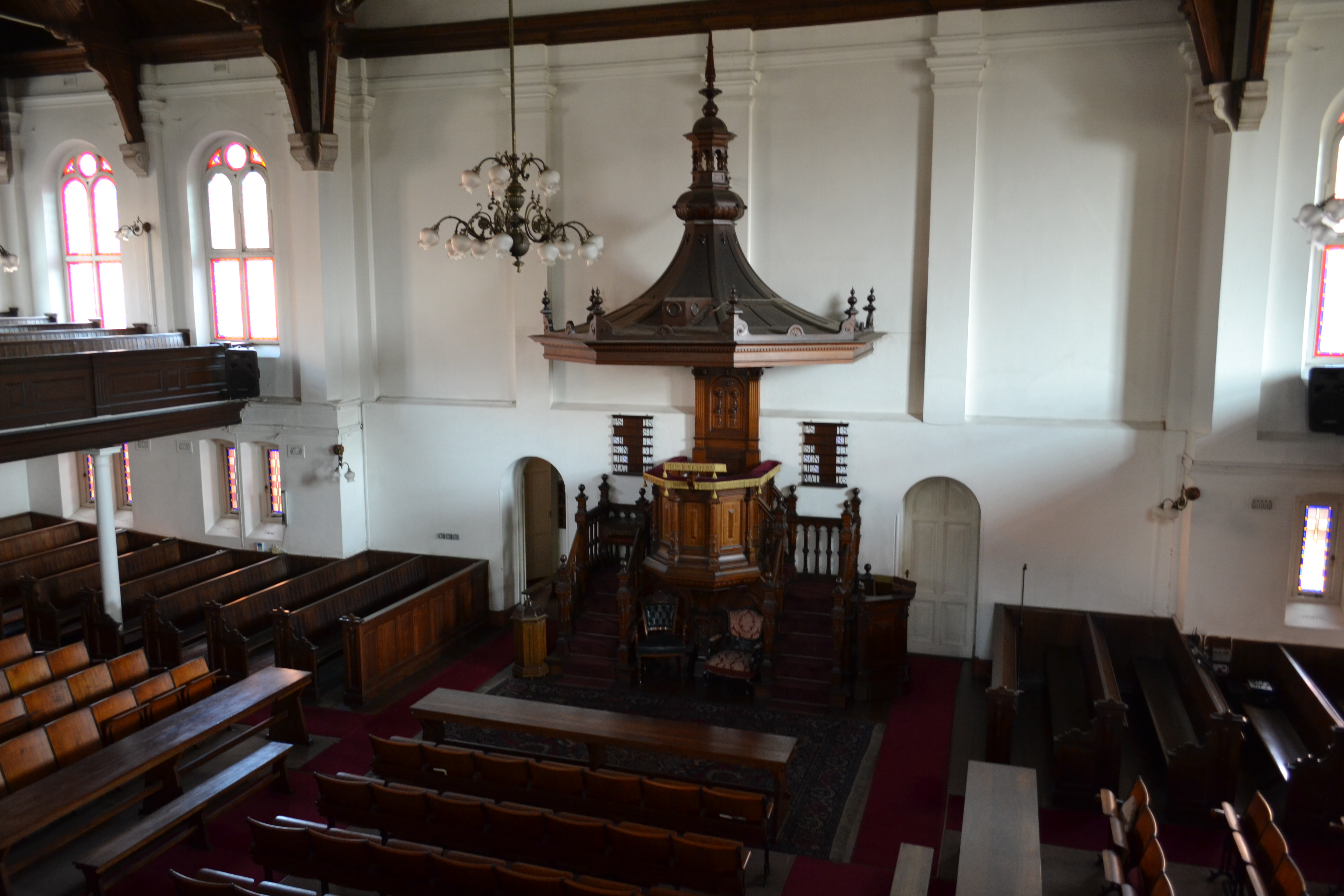 Dutch Reformed Church Church Street Pretoria This media shows a South African Protected Site with SAHRA file reference 9/2/258/0115.